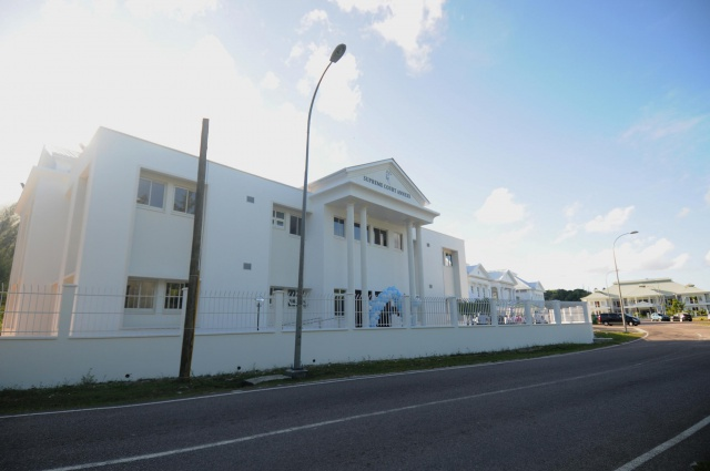 The Supreme Court Annexe, an extension of the Seychelles Palais de Justice at Ile du Port, Seychelles